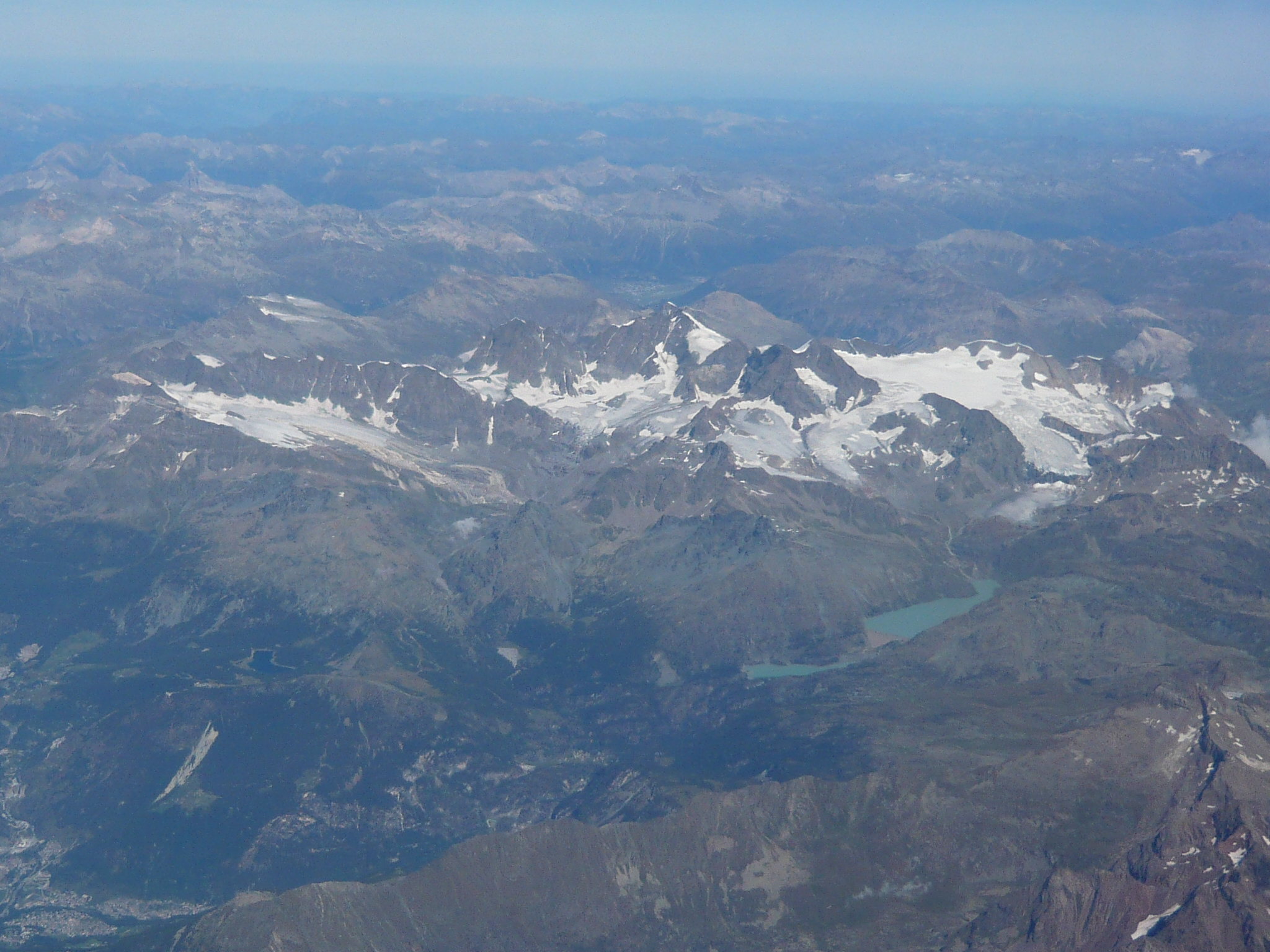 Italian side of Bernina range from airplane